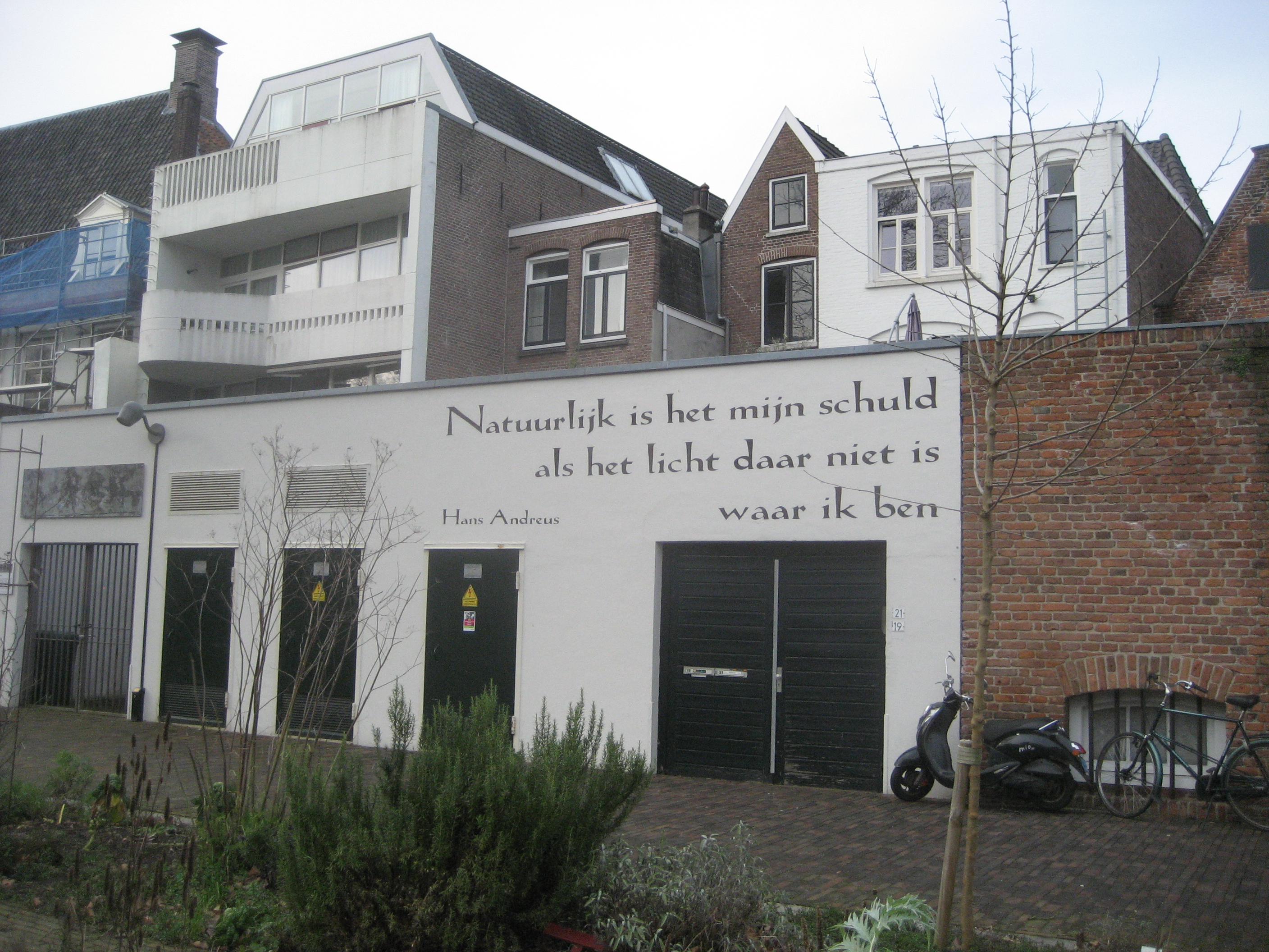 "Natuurlijk is het mijn schuld / als het licht daar niet is / waar ik ben". Part of a poem by Hans Andreus. Lamme van Diessenplein, Deventer (the Netherlands)